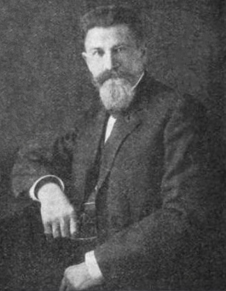 Gustav Kustermann, US Representative from Wisconsin